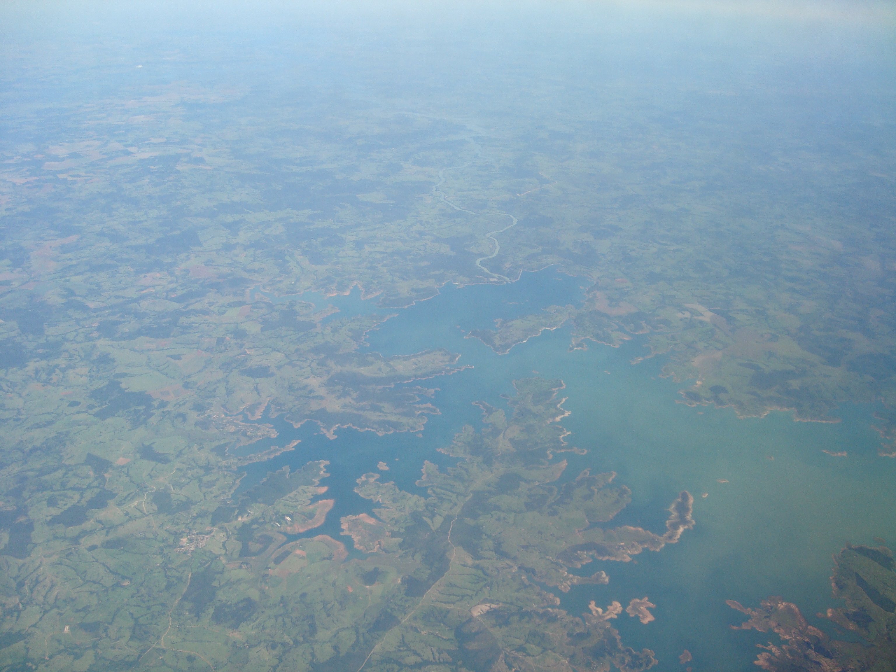 Emborcacao reservoir and dam in Paranaiba river, Brazil